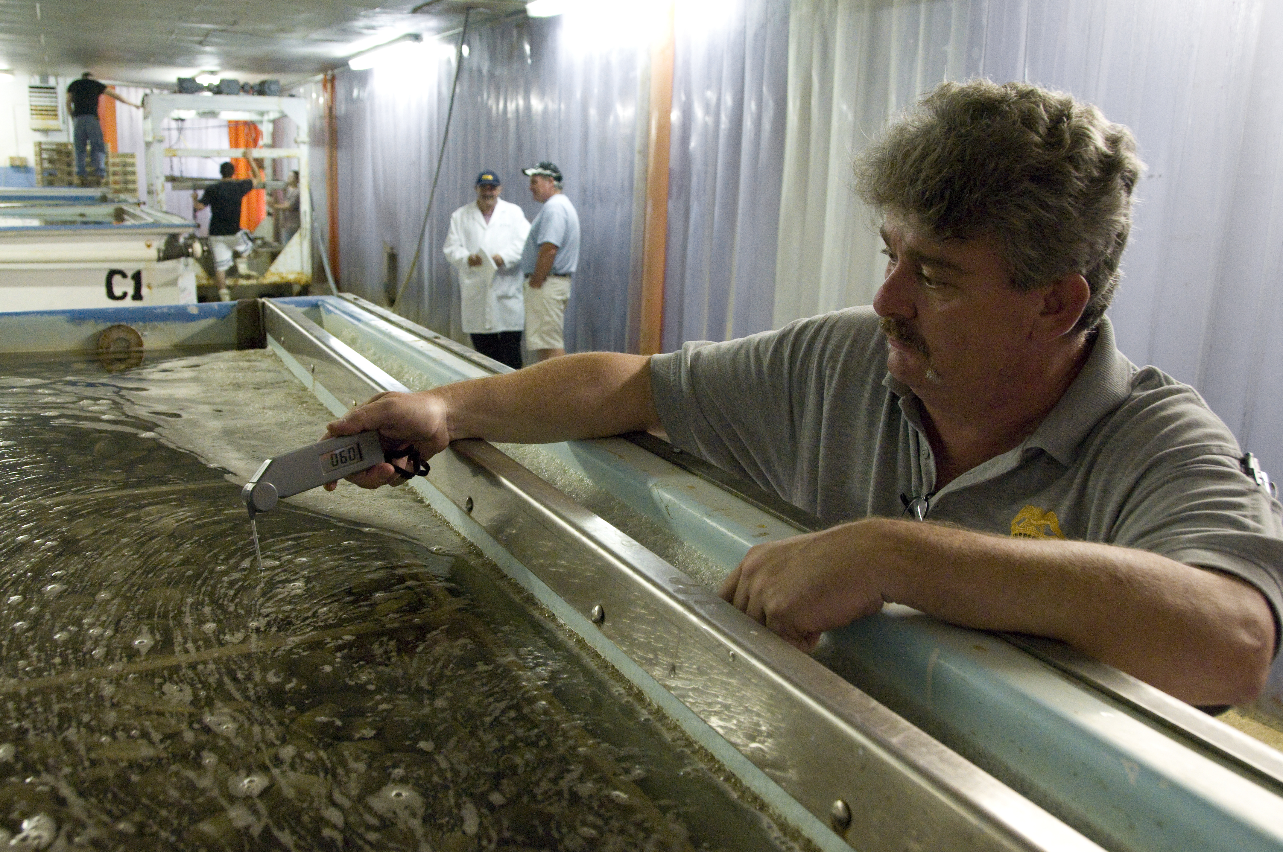 Aug. 4, 2009 – A state inspector checks the water temperature in the cleansing tanks while an FDA shellfish specialist talks to the plant operator. States take the lead regulating the shellfish industry, while FDA monitors and evaluates the state programs and provides training and technical assistance. Slideshow: Article: To learn more about how FDA is helping to ensure seafood safety, read these Consumer Updates: Fish Hazards and Controls: More Than a Fish Story How FDA Regulates Seafood: FDA Detains Imports of Farm-Raised Chinese Seafood This photo is free of all copyright restrictions and available for use and redistribution without permission. Credit to the U.S. Food and Drug Administration is appreciated but not required. Privacy and use information: FDA photo by Michael J. Ermarth